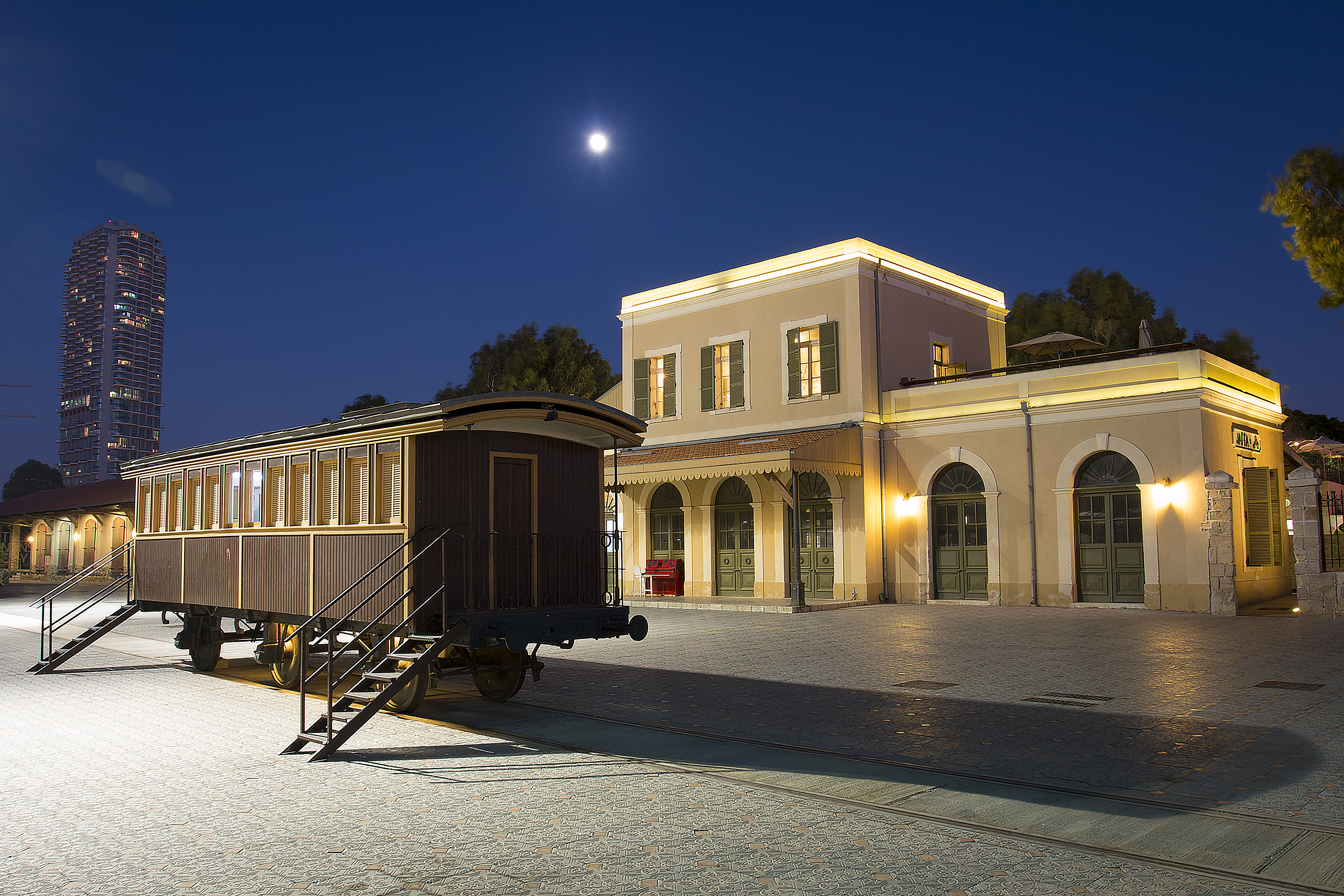 Jaffa Railway Station